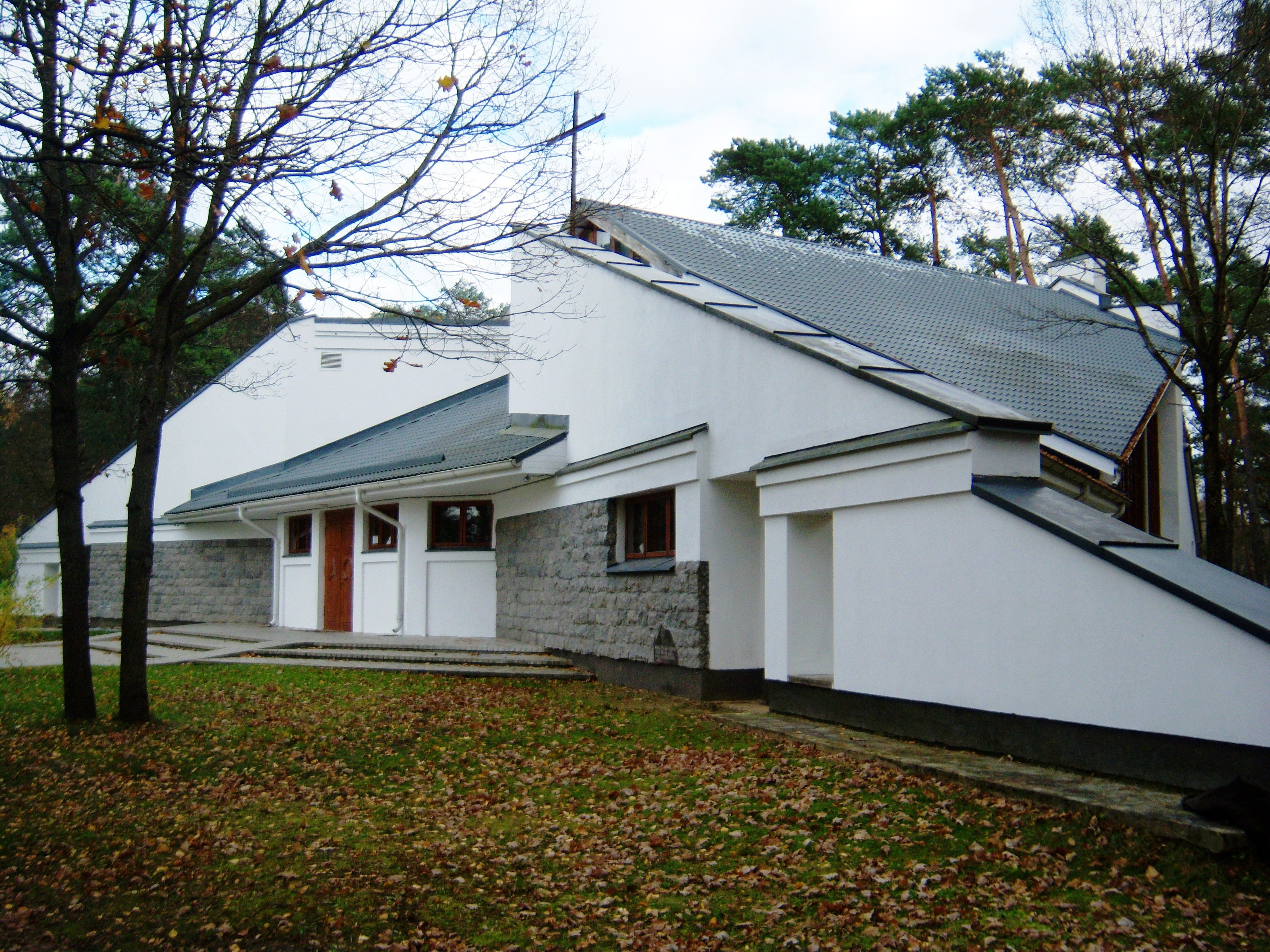 Roman Catholic Church in Berčiūnai, Panevėžys District, Lithuania